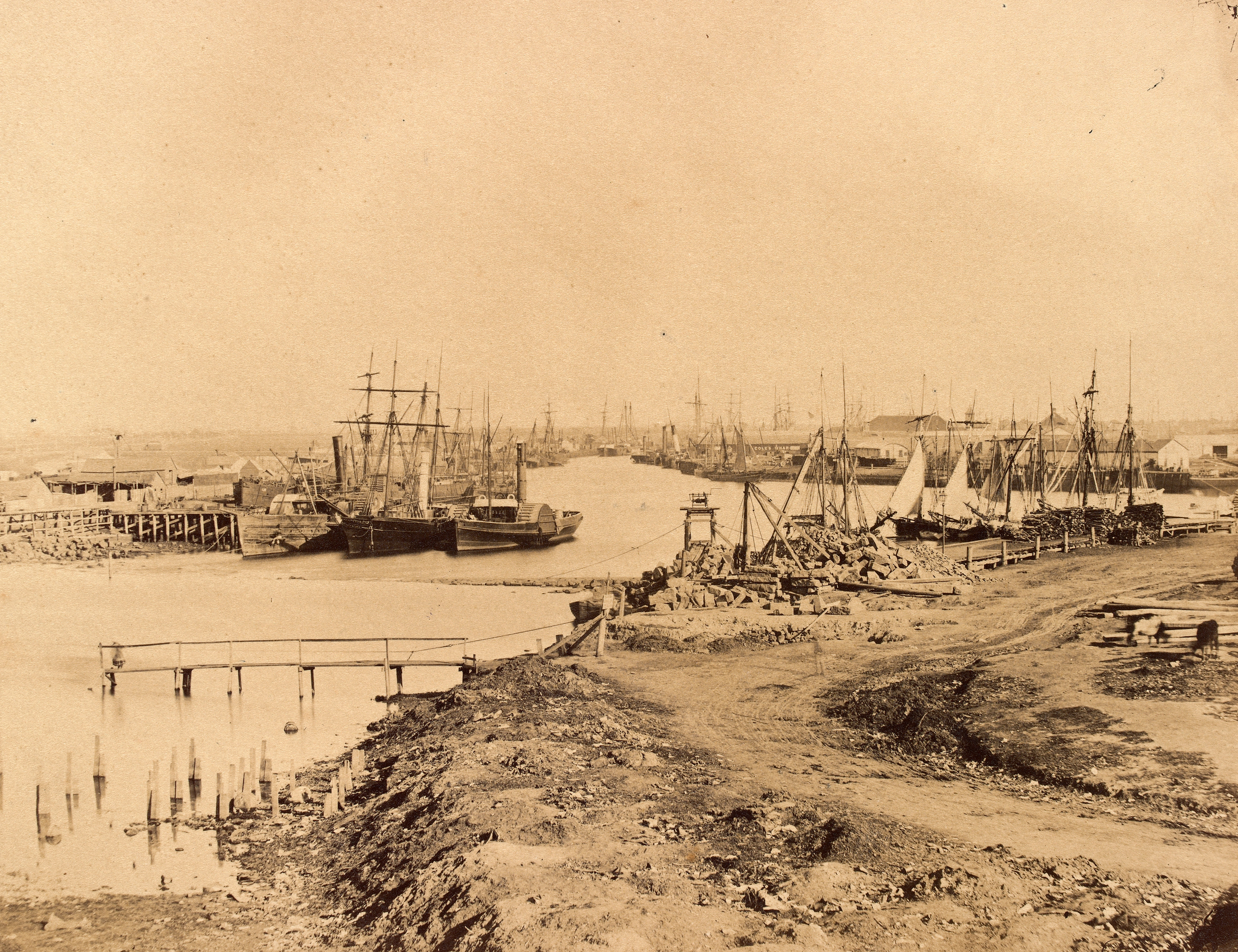 Yarra Falls before its 1883 demolition, facing towards Melbourne and with Cole's Wharf in the background.